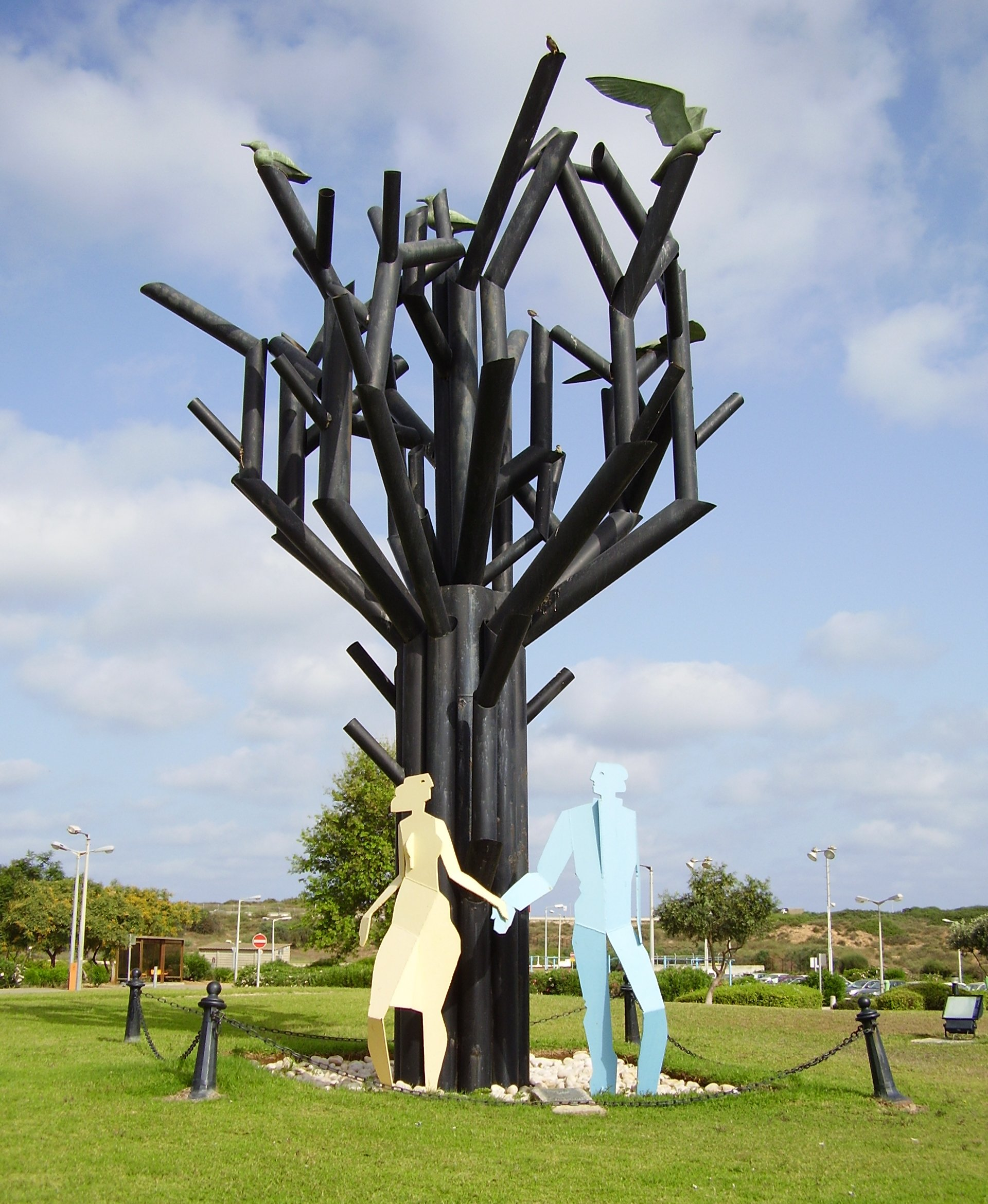 Prof. Rafi Carasso's sculpture "Hitragut" (Relaxation in Hebrew) oppsite the Hillel Yaffe Medical Center emergency room entrance; view from south-east